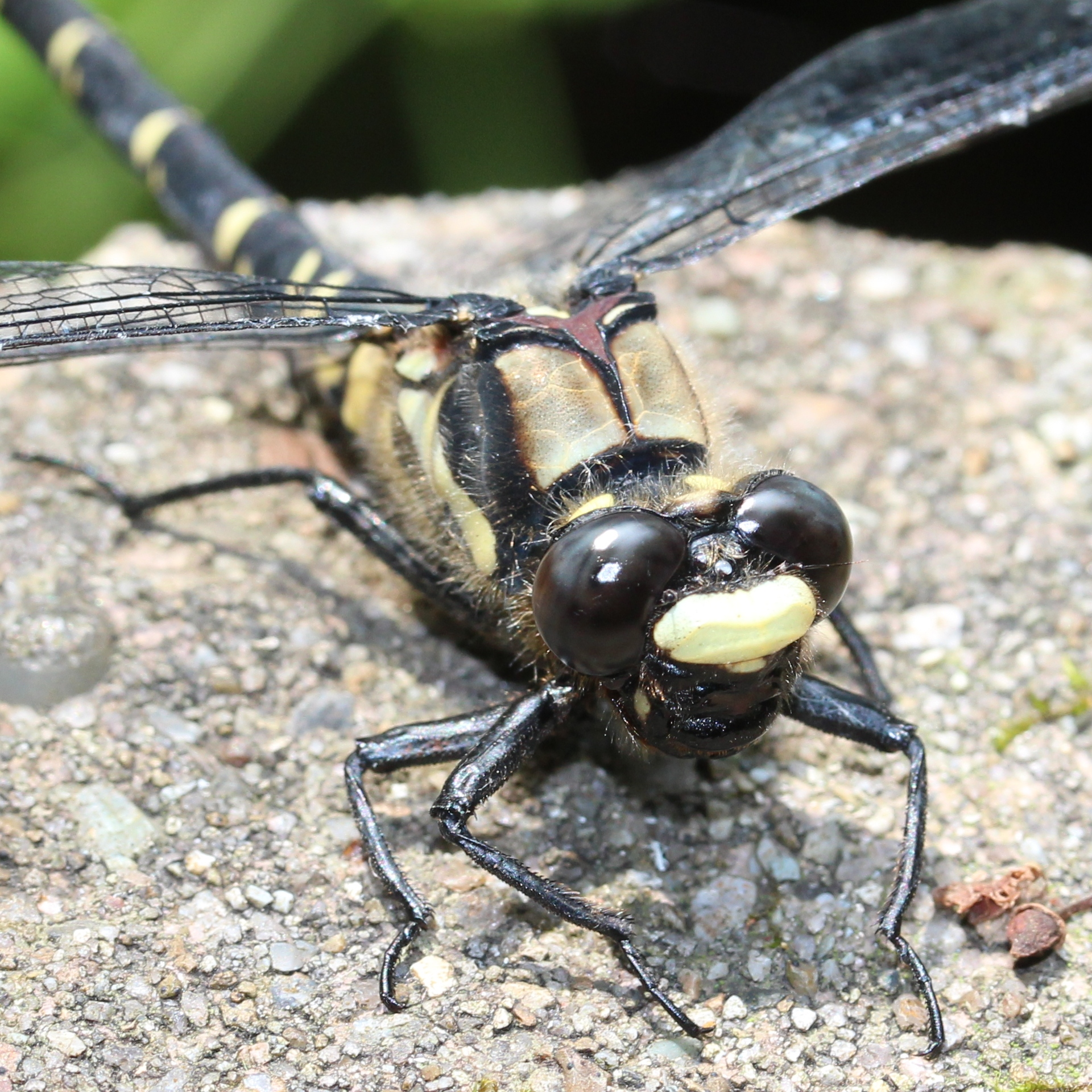 Tanypteryx pryeri, face in Japan